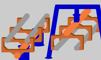 Design of Vekoma and Arrow track type.